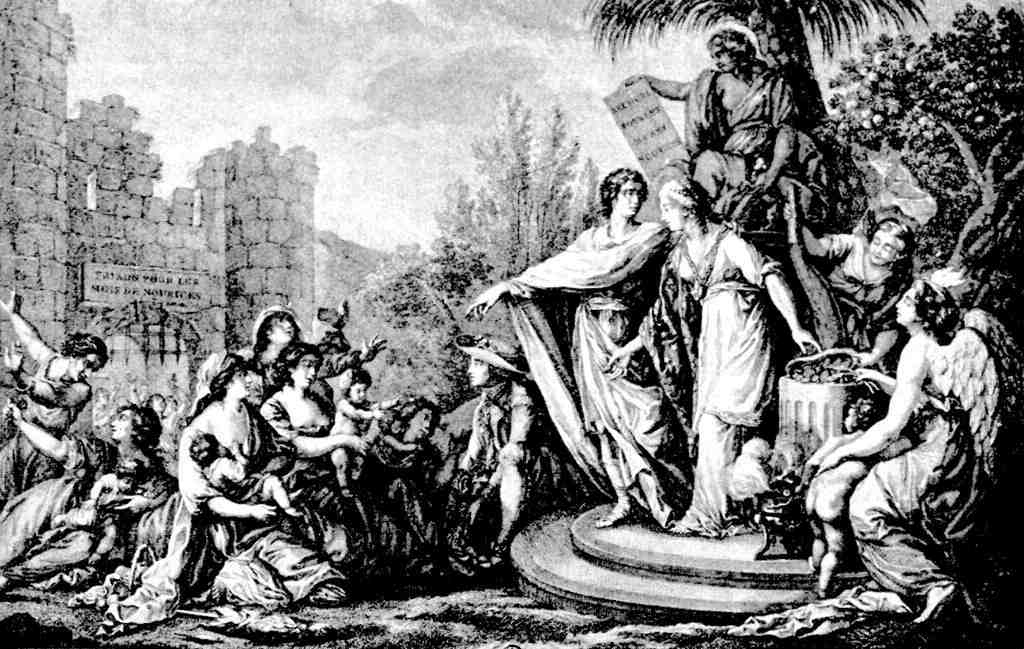 Mothers, let feed our children! (A propaganda poster from 1784)